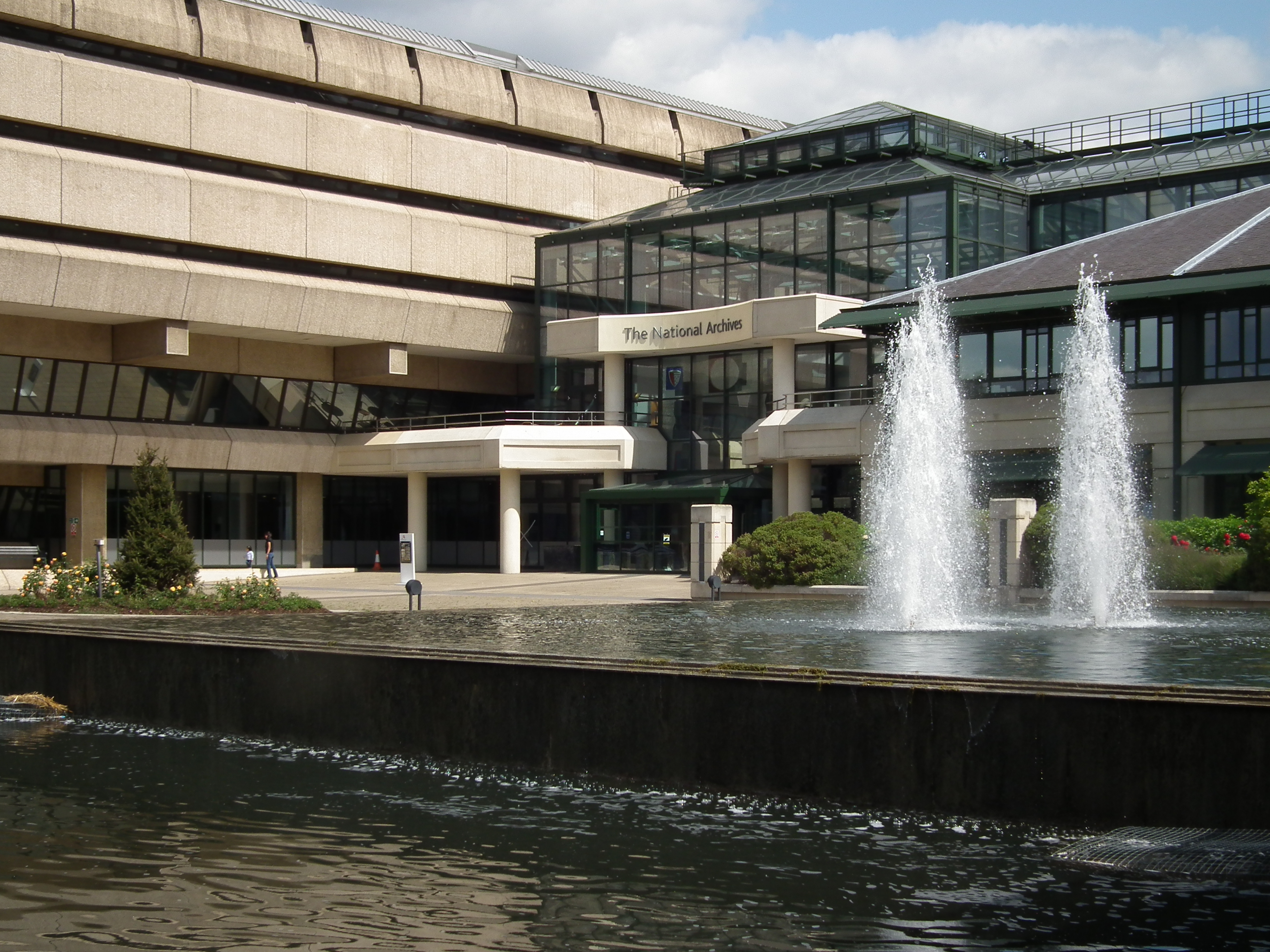 A view across the fountain to the main entrance at The National Archives, Kew.